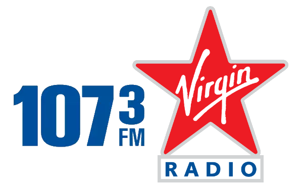 Logo of CHBE-FM under the branding 107.3 Virgin Radio.